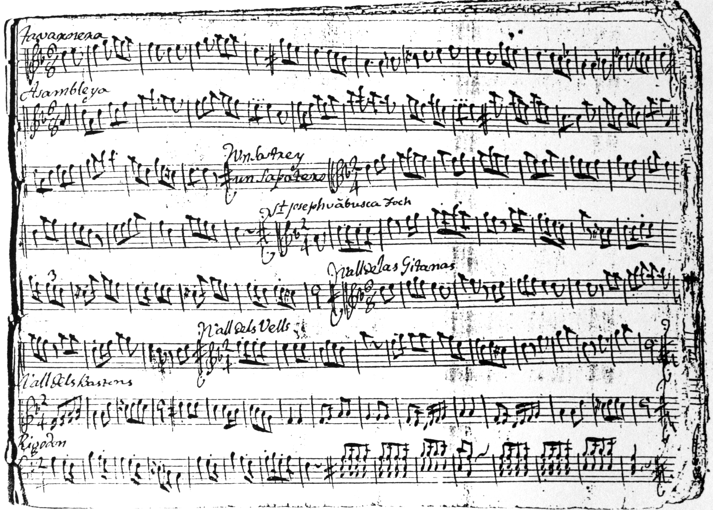 Ball de gitanes, ball de bastons i rigodon, ca. 1820